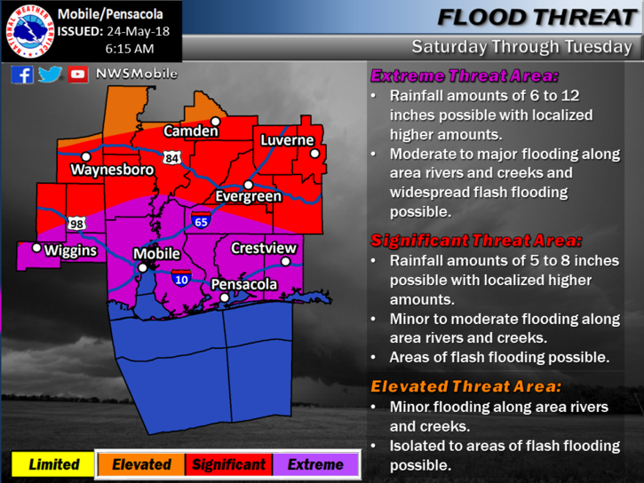 A rain forecast from the National weather service.